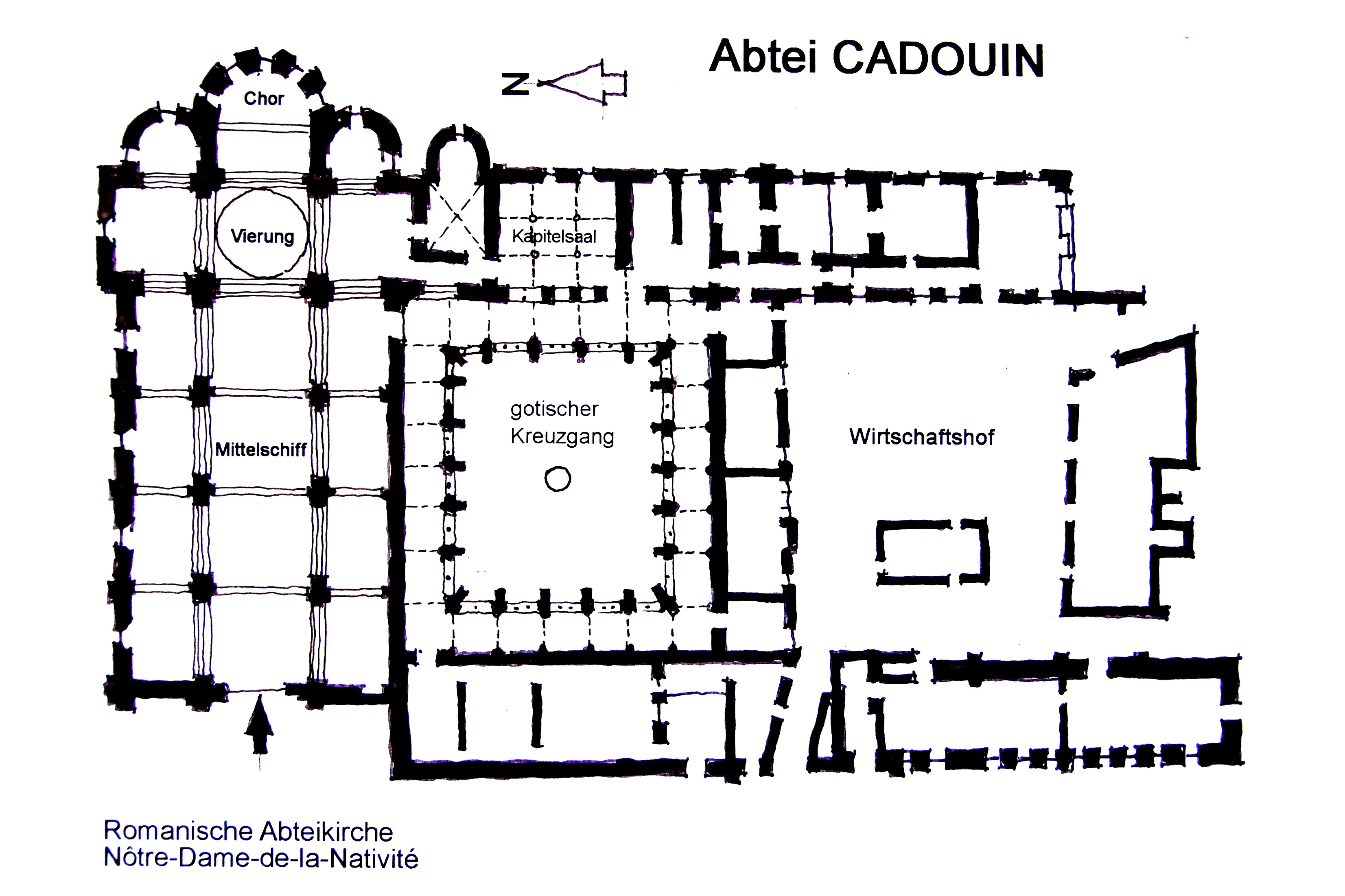 German floorplan of Cadouin Abbey, Departement of Dordogne, France.